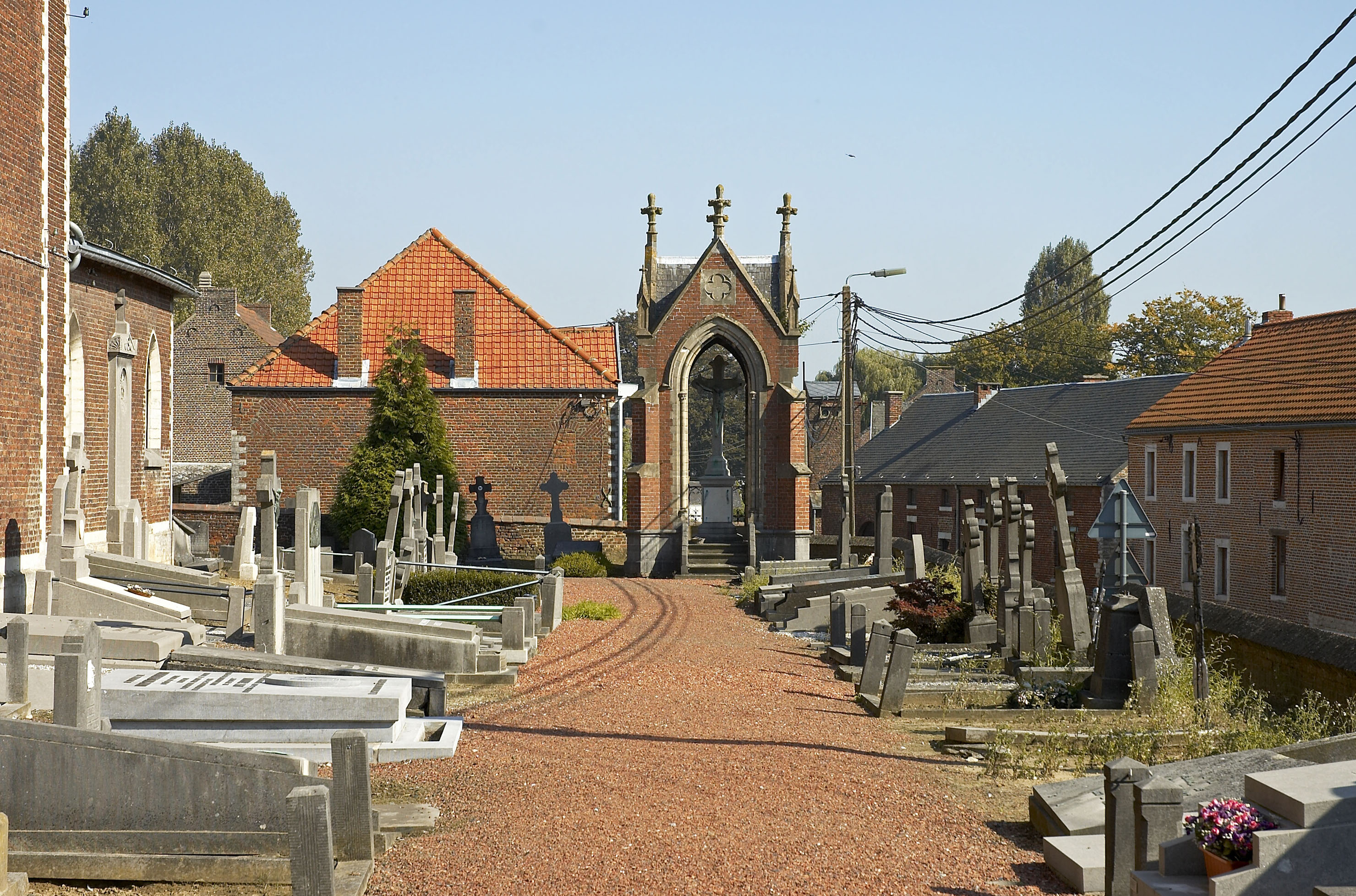 Cemetery of church Saint Sulpice in Beauvechain, Belgium